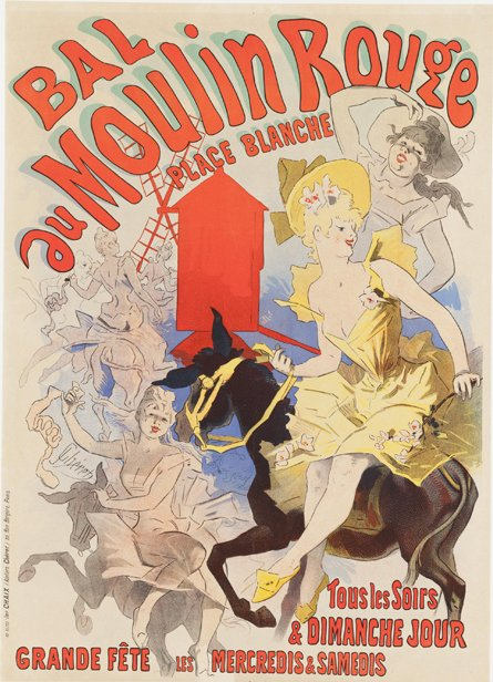 Bal du Moulin Rouge by Jules Chéret, 1889, lithograph, Milwaukee Art Museum (promised gift)